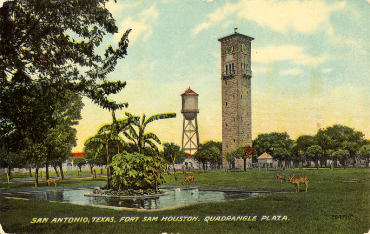 Quadrangle Plaza, Fort Sam Houston